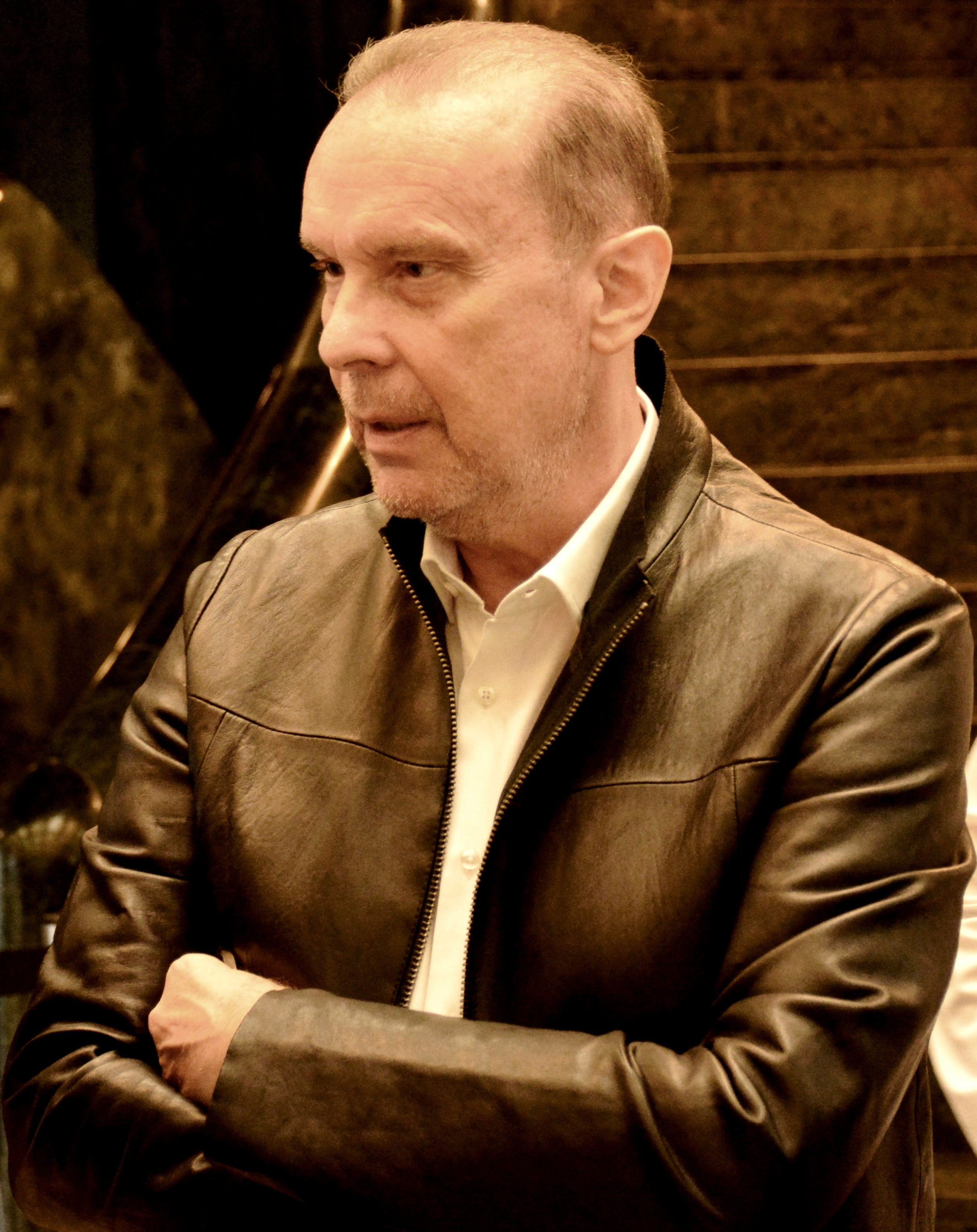 Štefan Margita, Czech tenor